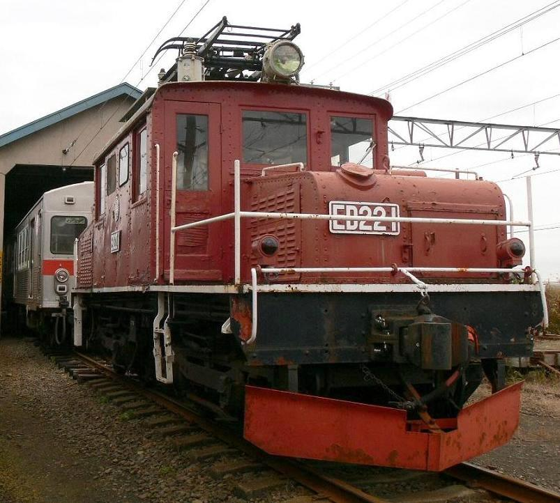 kounan Railway Type ED22-1 Electric locomotive(Japan).